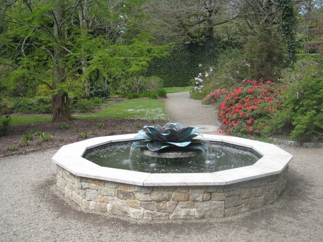 The Magnolia Fountain in Trewithen Gardens The gardens of Trewithen House are open to the public and in the spring there is a superb display of magnolias, rhododendrons and azaleas.